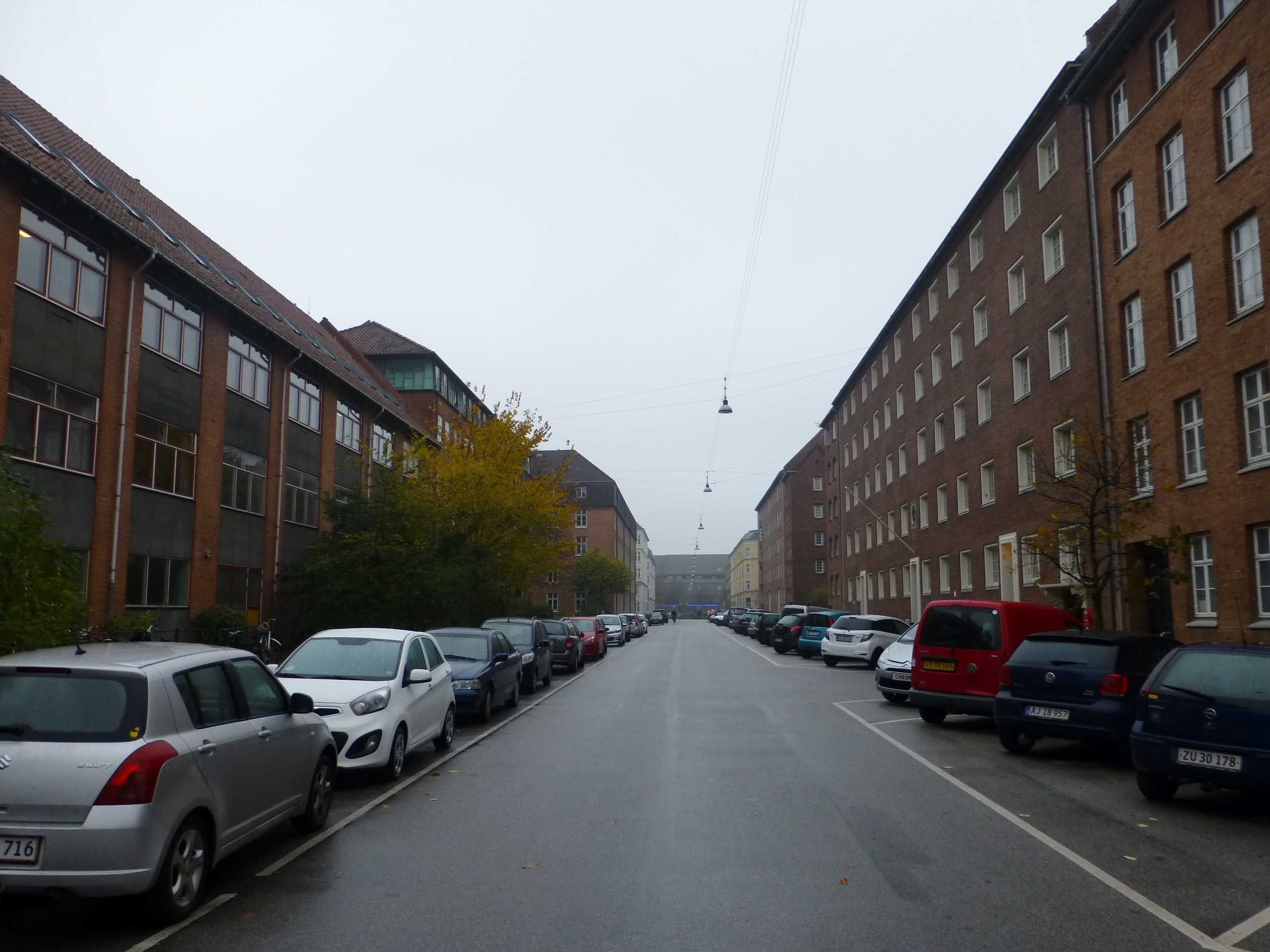 The street Australiensvej in Østerbro in Copenhagen.